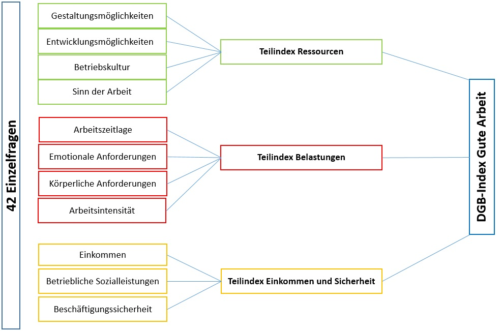 Overview of the 11 criteria of the DGB Index Good Work